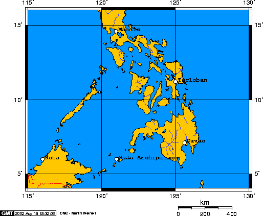 Public domain Mercator projection of the Sulu Archipelago.